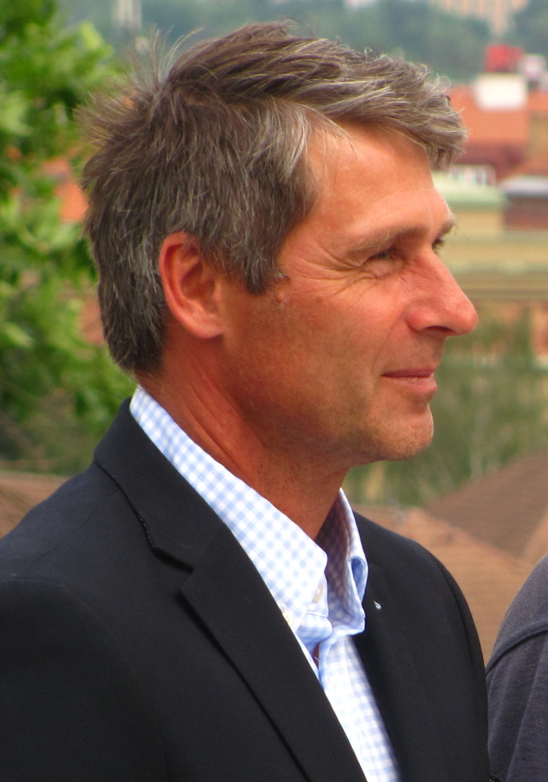 Jan Železný, Czech athlet (2012), Photo taken on May 31, 2012 in Prague - Juliska during the ceremony of installation of a statue of Josef Masopust, Czech footballer.